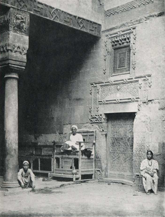 ENTRANCE TO AN OLD NATIVE HOUSE. Three men sitting in front of a building in the city.